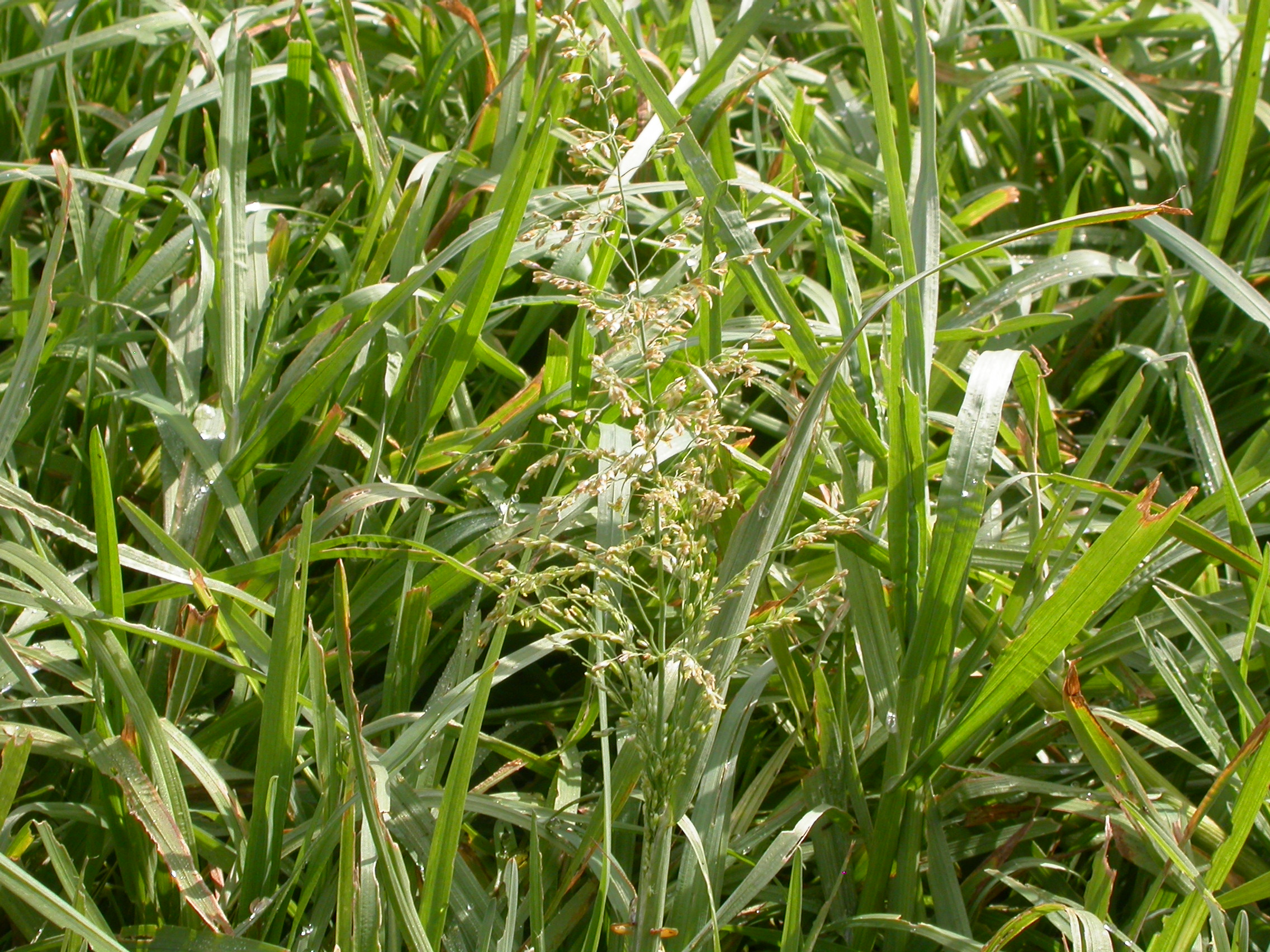 The inflorescences are open panicles that can become very tall and diffuse by late summer and early fall.